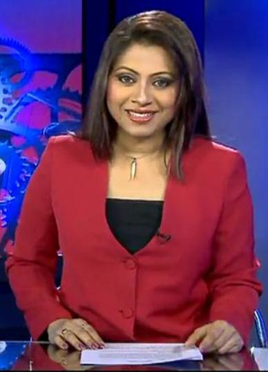 Nairanjana Ghosh, appeared onscreen first time for New Time as the Launching Face.